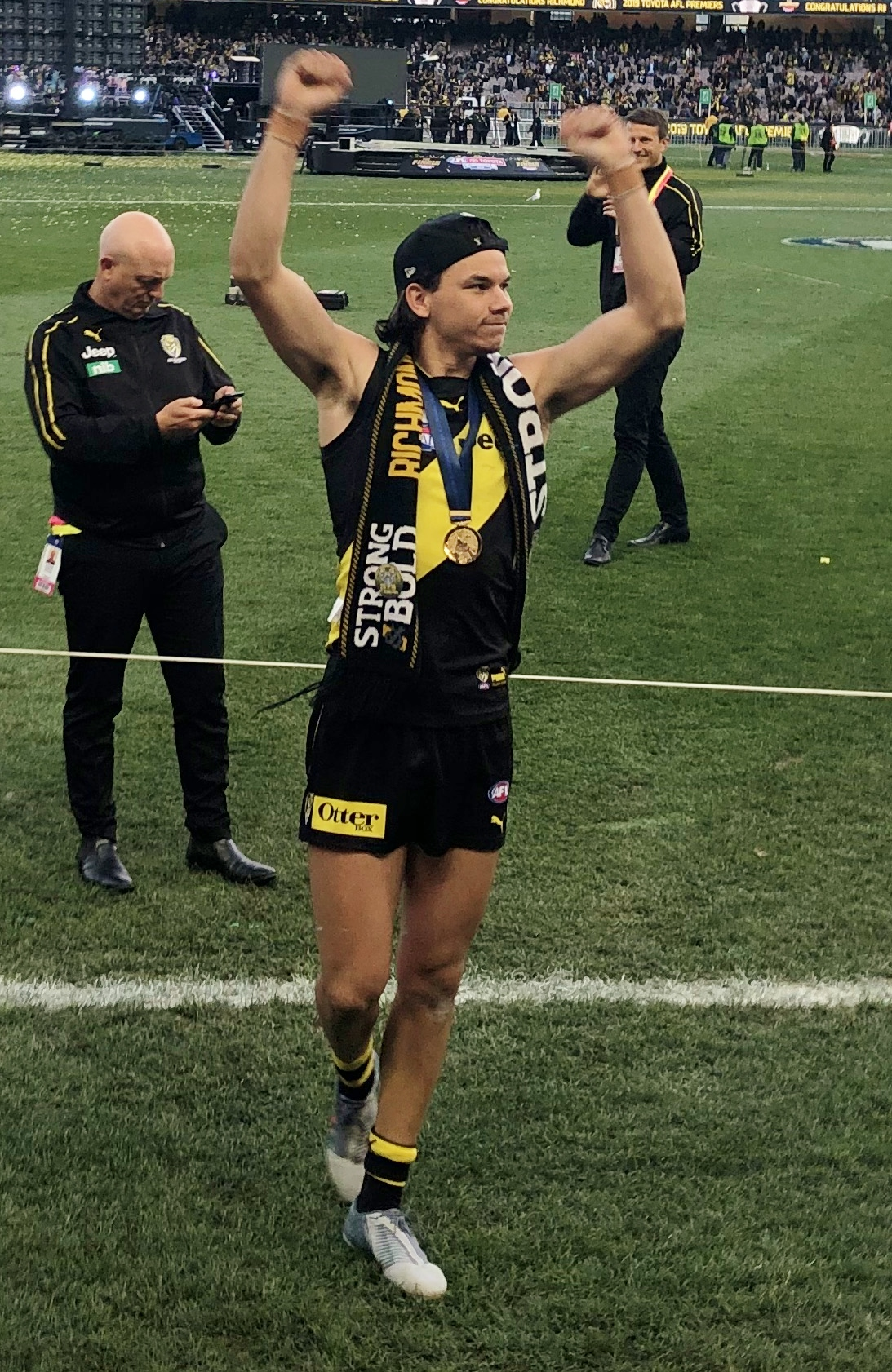 Daniel Rioli at the 2019 AFL Grand Final